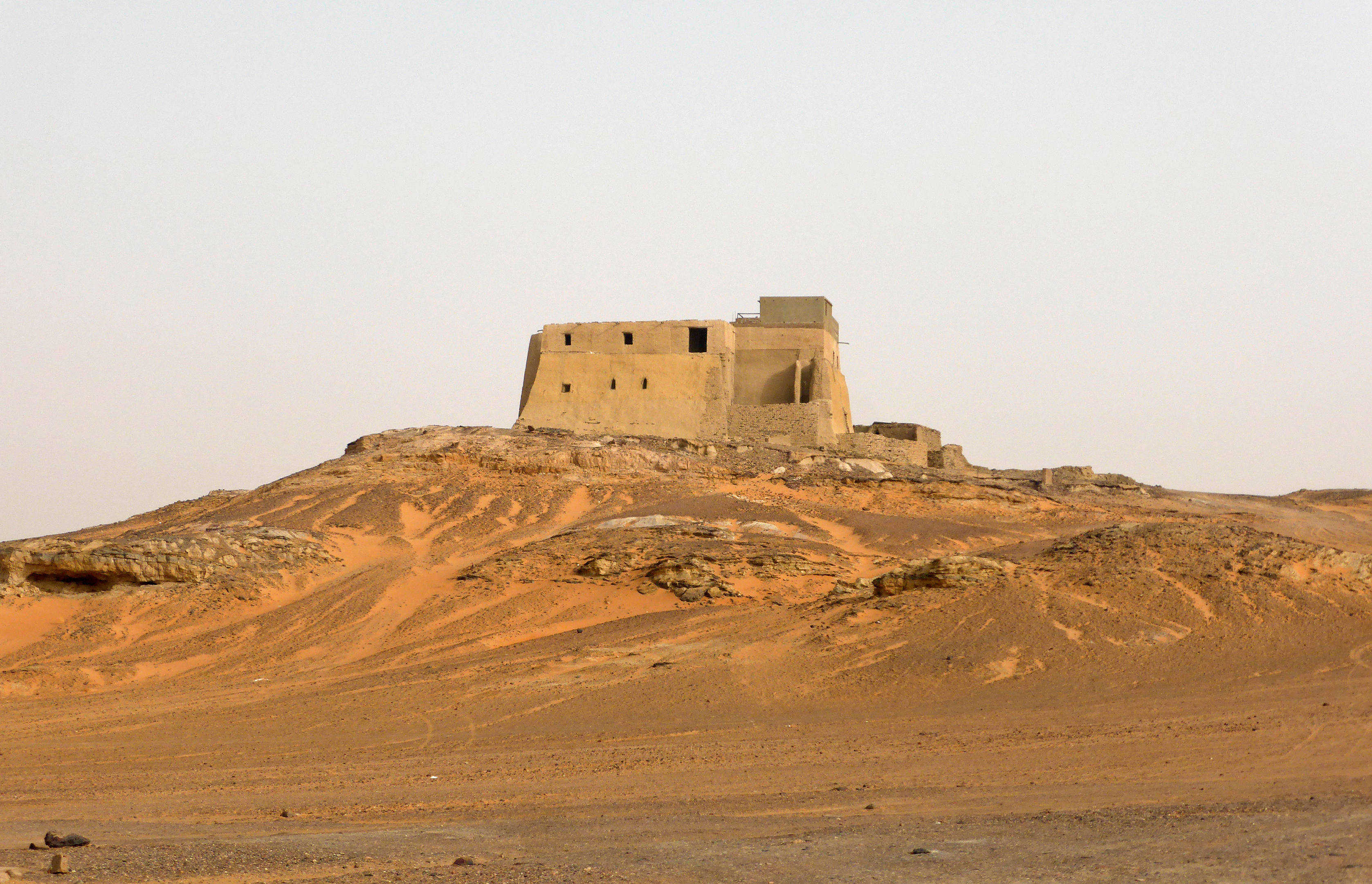 Old Dobgola Kingdom of Makuria, Throne hall (2)